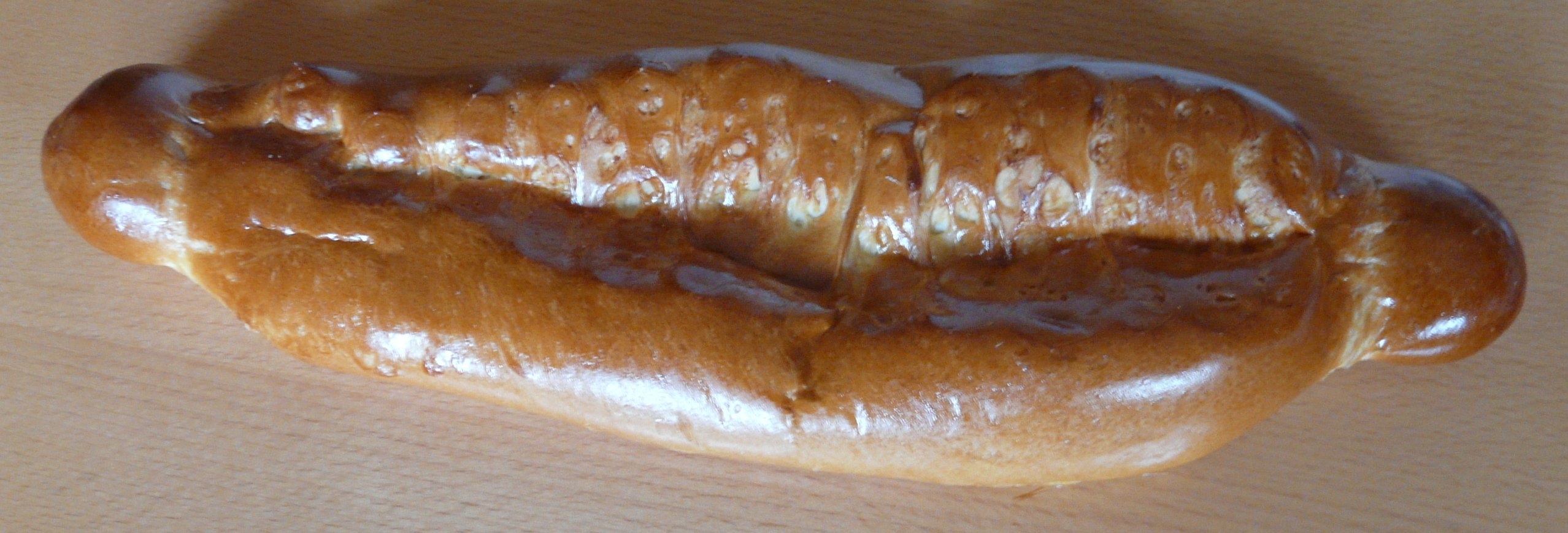 A "Neujahrsbopp" pastry from Mainz/Germany.